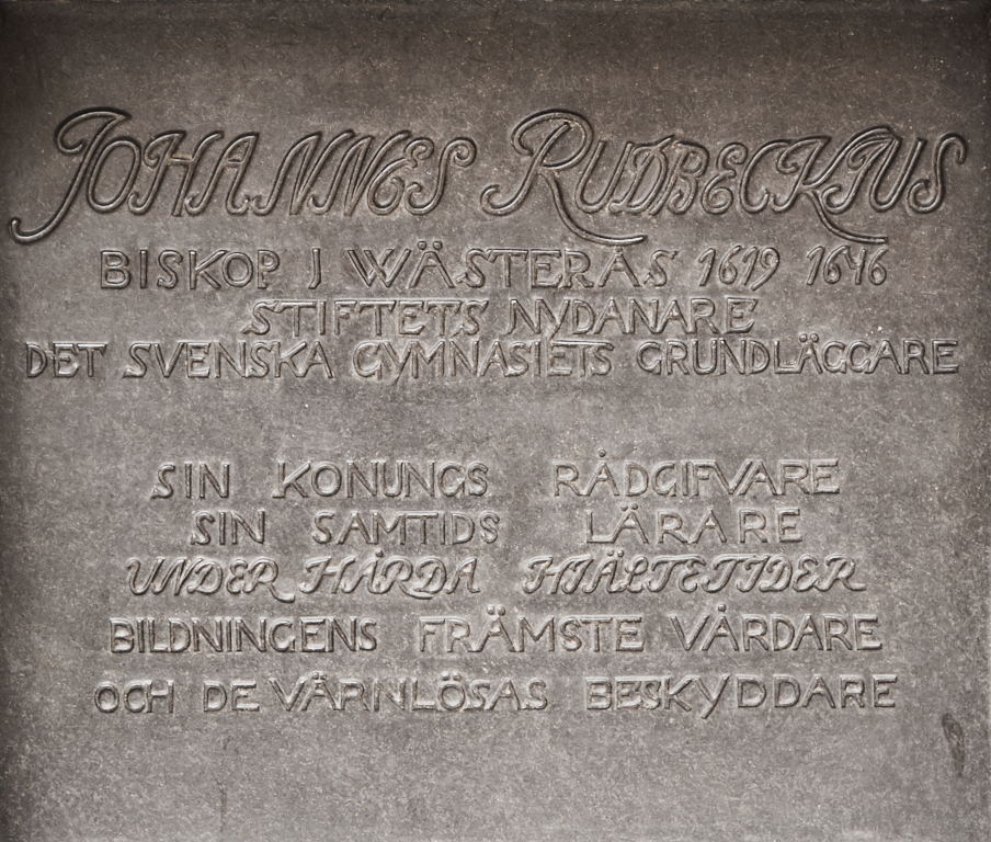 Johannes Rudbeckius